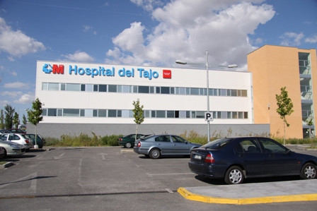 Tagus's Hospital